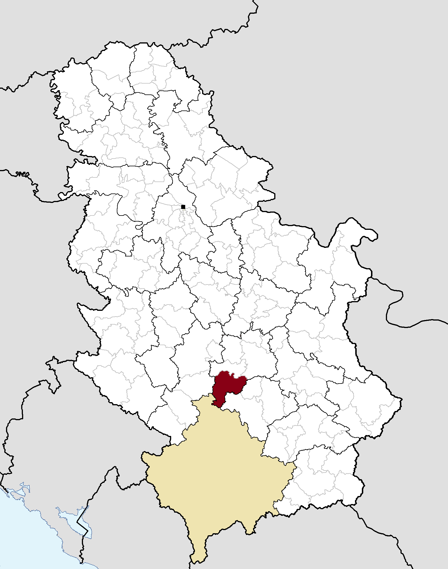 Municipal location in Serbia